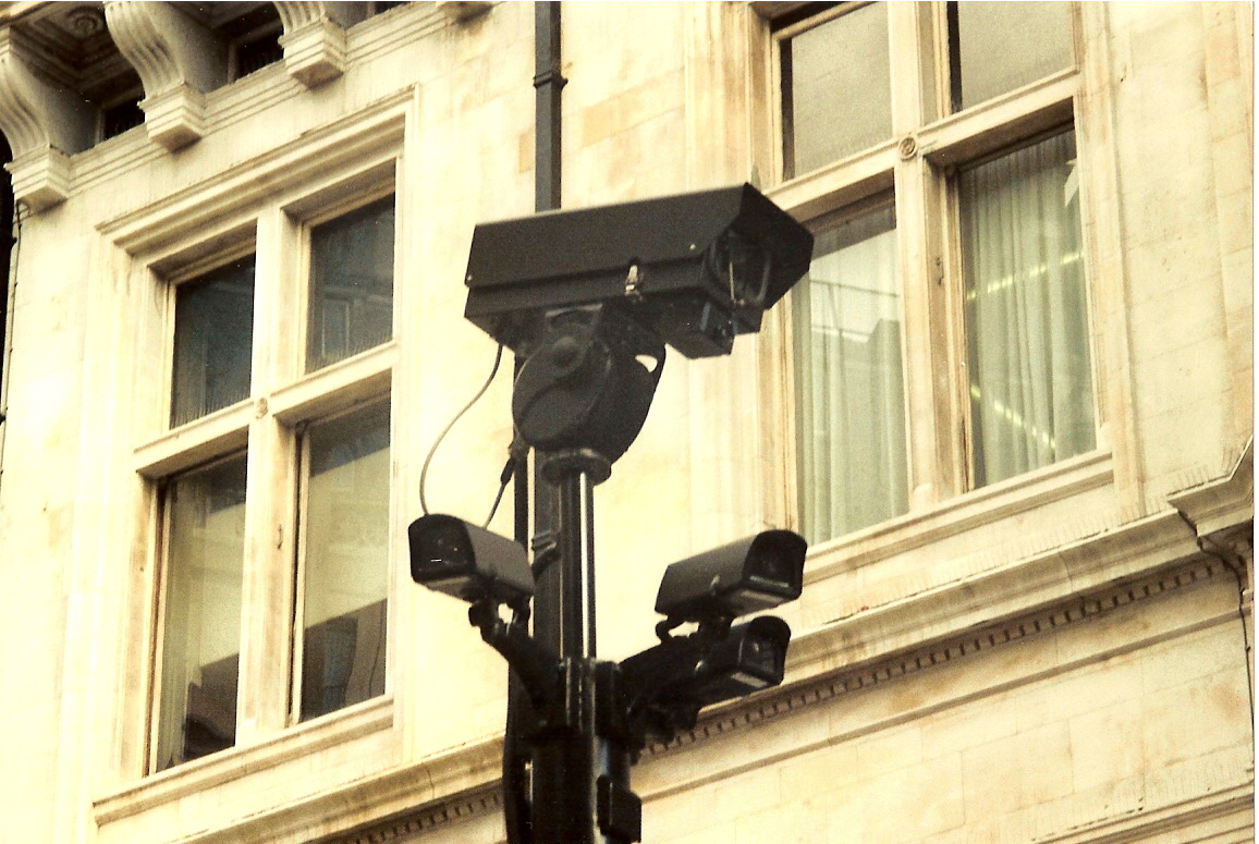 Picture taken by myself somewhere near trafalgar square, february 2005 - picture scanned